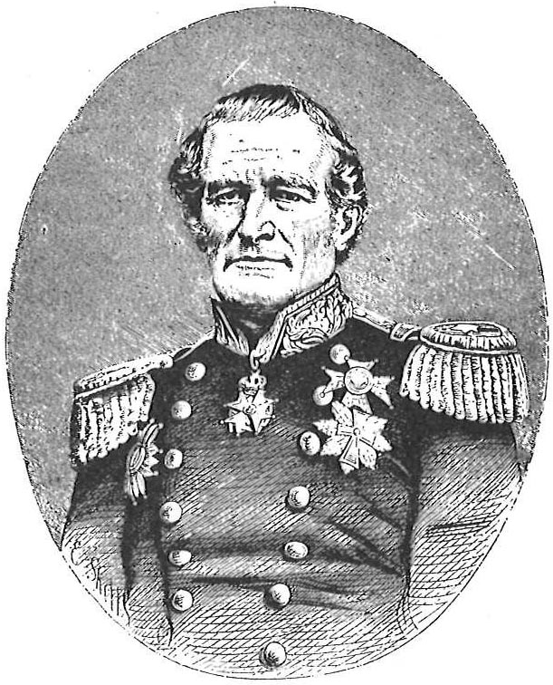 Christian Adolf Virgin (1797-1870), Swedish naval officer and diplomat.